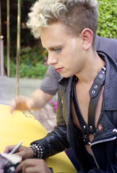 Subject: Martin Gore of Depeche Mode Date: July, 1986 Place: Los Angeles, California, USA Photographer: Andwhatsnext Original 35mm photograph scanned Credit: Copyright (c) 1986 by Nancy J Price